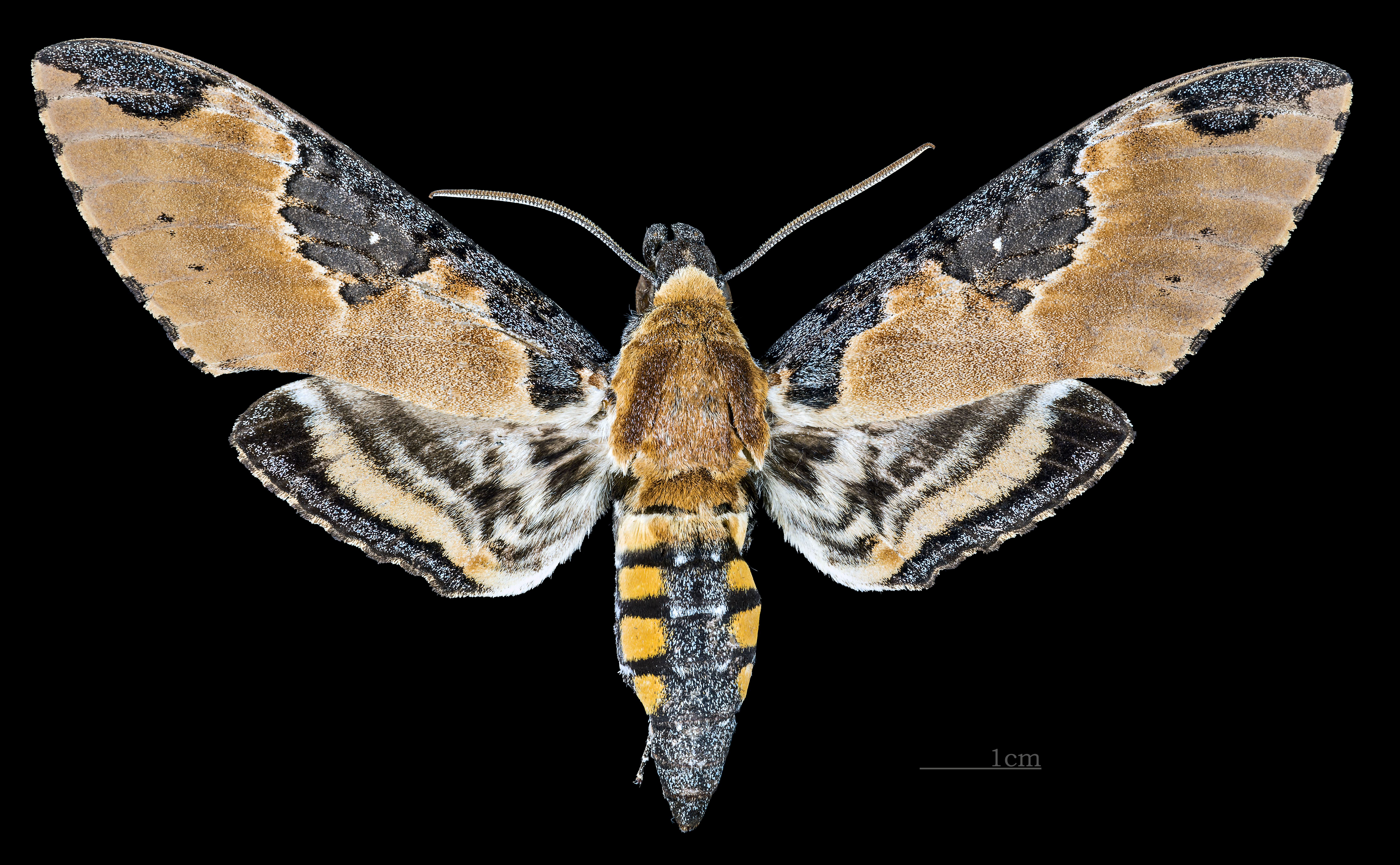 Manduca ochus - Dorsal side Collection of the Mathematician Laurent Schwartz